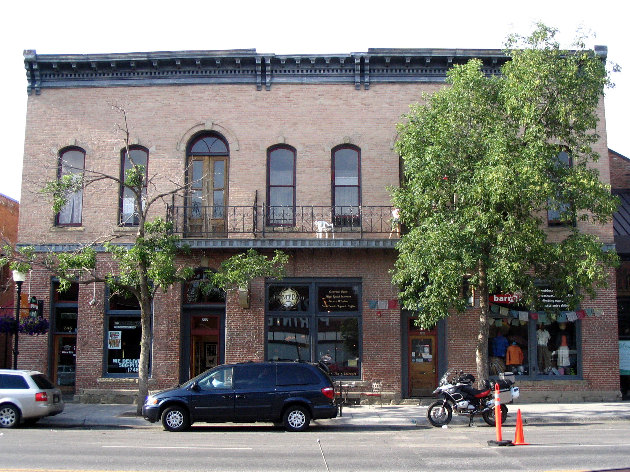 The Spieth & Krug Brewery (1883) on Main Street in Bozeman, Montana. It is listed on the National Register of Historic Places.